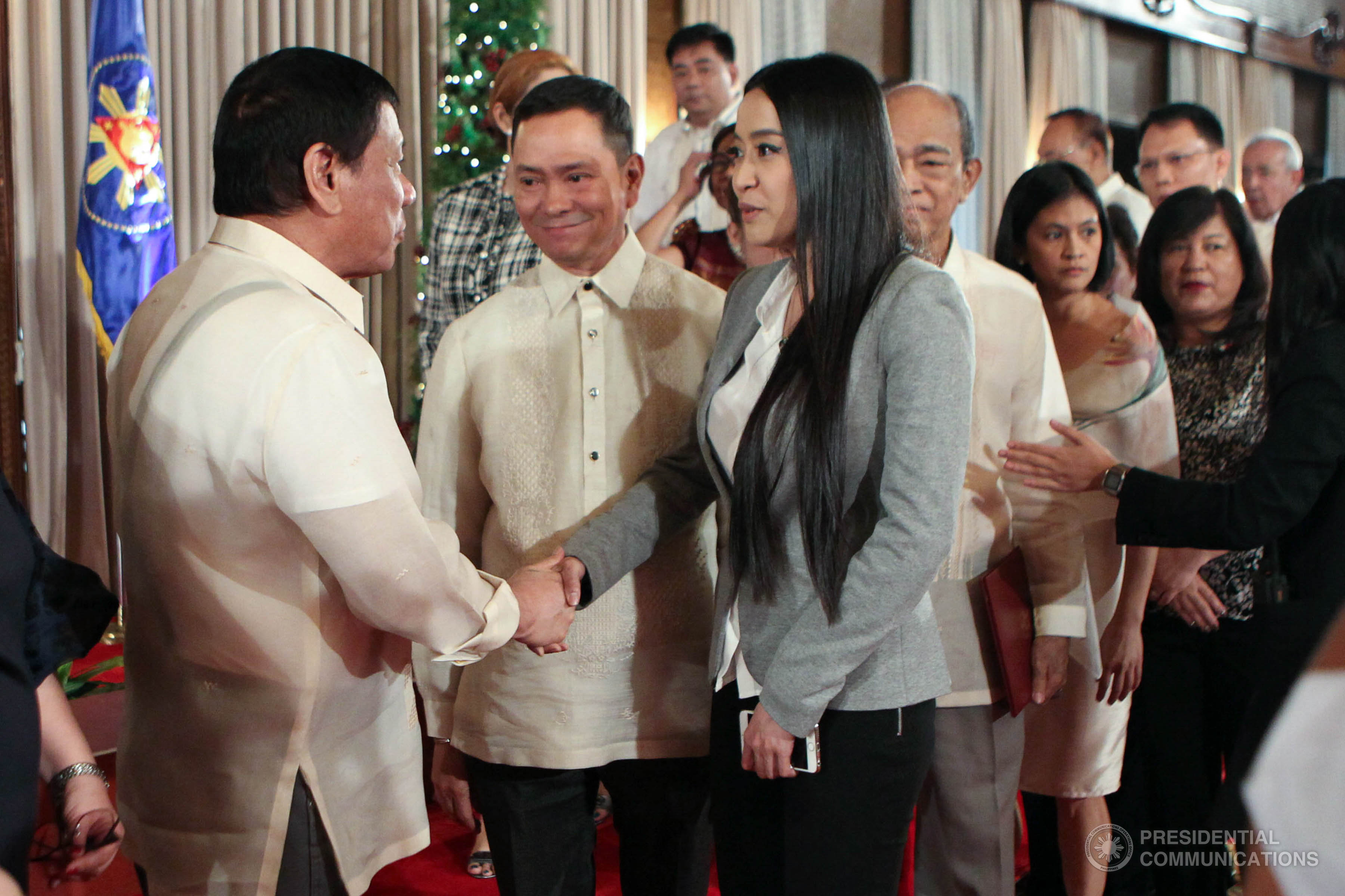 Philippine President Rodrigo Duterte greets newly-appointed Movie and Television Review and Classification Board (MTRCB) member Mocha Uson at the Malacañang Palace on January 9, 2017.